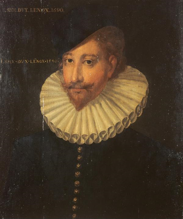 "ESME DUX LENOX 1590", Esmé Stewart, 1st Duke of Lennox, 1st Earl of Lennox (1542 – 26 May 1583) was a Roman Catholic French nobleman of Scottish ancestry who on his move to Scotland at the age of 37 became a favorite of the 13 year-old King James VI of Scotland, of whose father, Lord Darnley, he was a first cousin. Provenance: Collection of James Erskine of Alva, when copy drawn of it (see[1]) by by David Steuart Erskine, 11th Earl of Buchan (12 June 1742 – 19 April 1829) a Scottish antiquarian, founder of the Society of Antiquaries of Scotland in 1780, and patron of the arts and sciences. Donated in 1973 to National Gallery of Scotland on death of James Alastair Frederick Campbell Erskine-Murray, 13th Lord Elibank (1902–1973). accession number: PG 2213. Oil on panel, measurements: 56.80 x 47.20 cm (framed: 67.31 x 57.78 x 2.54 cm)